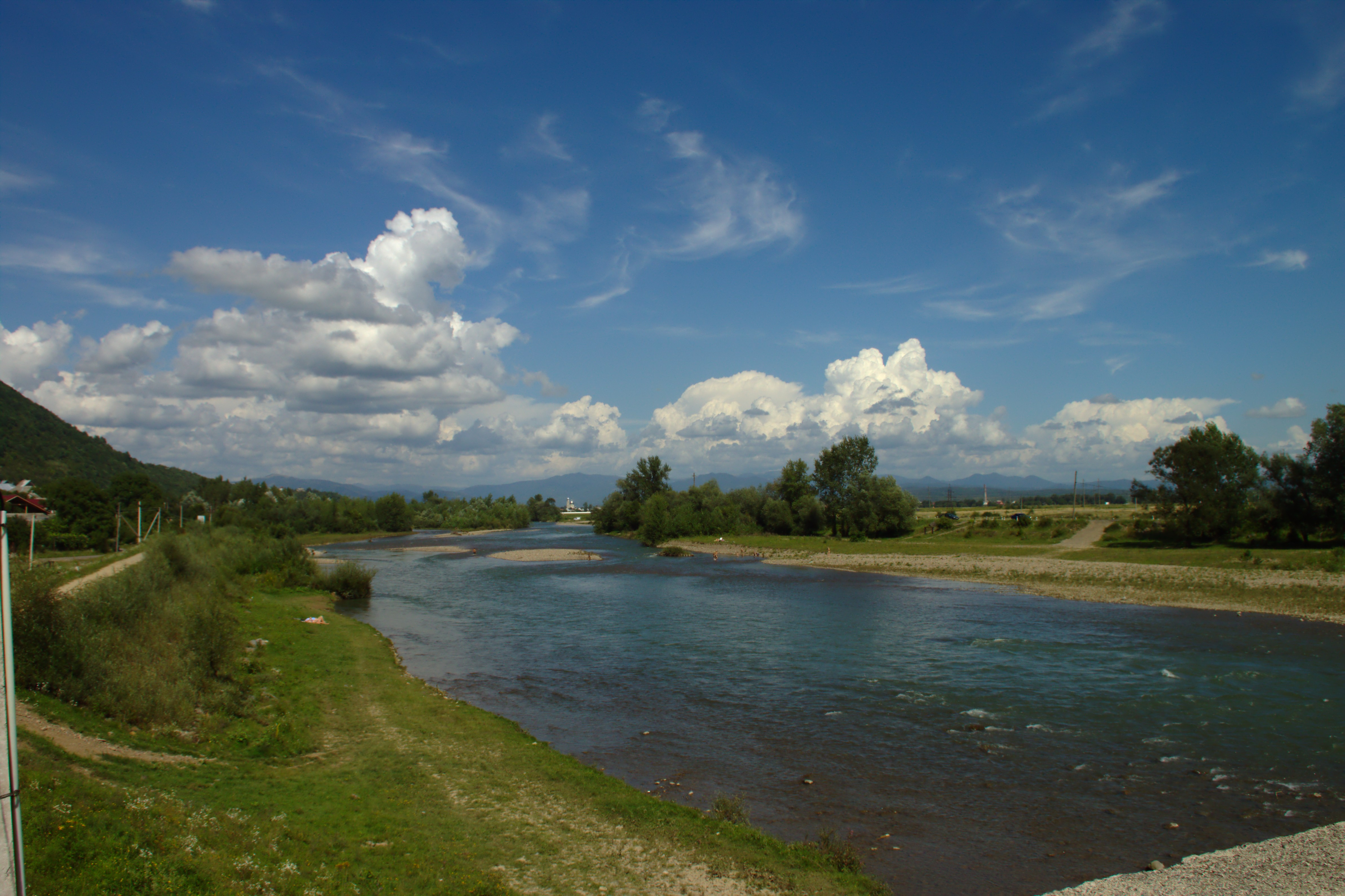 Rika River near the town of Khust. The village of Zarichne can be seen in the background (left side). Zakarpattia Oblast, Ukraine